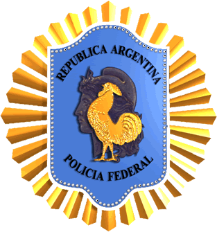 Emblem of the Policía Federal Argentina (Argentine Federal Police).